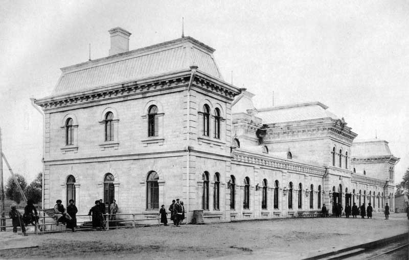 Khachmaz Railway station 1902